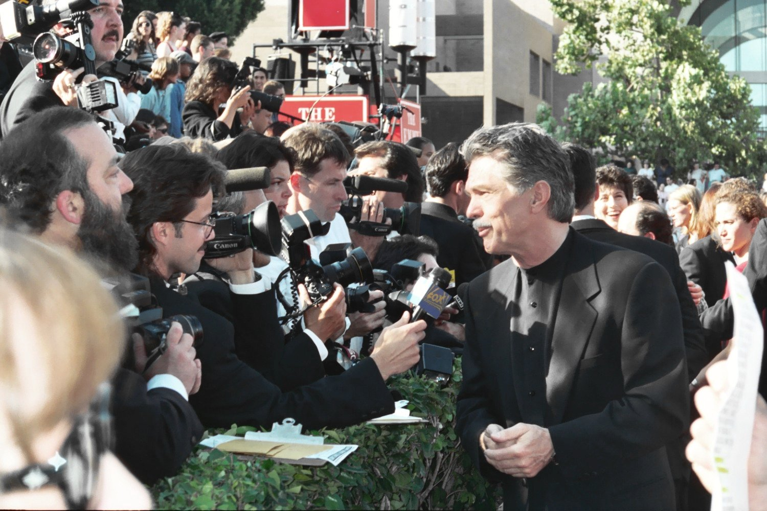 1994 Emmy Awards NOTE: Permission granted to copy, publish, broadcast or post any of my photos, but please credit "photo by Alan Light" if you can. Thanks. Scanned from the original 35MM film negative.